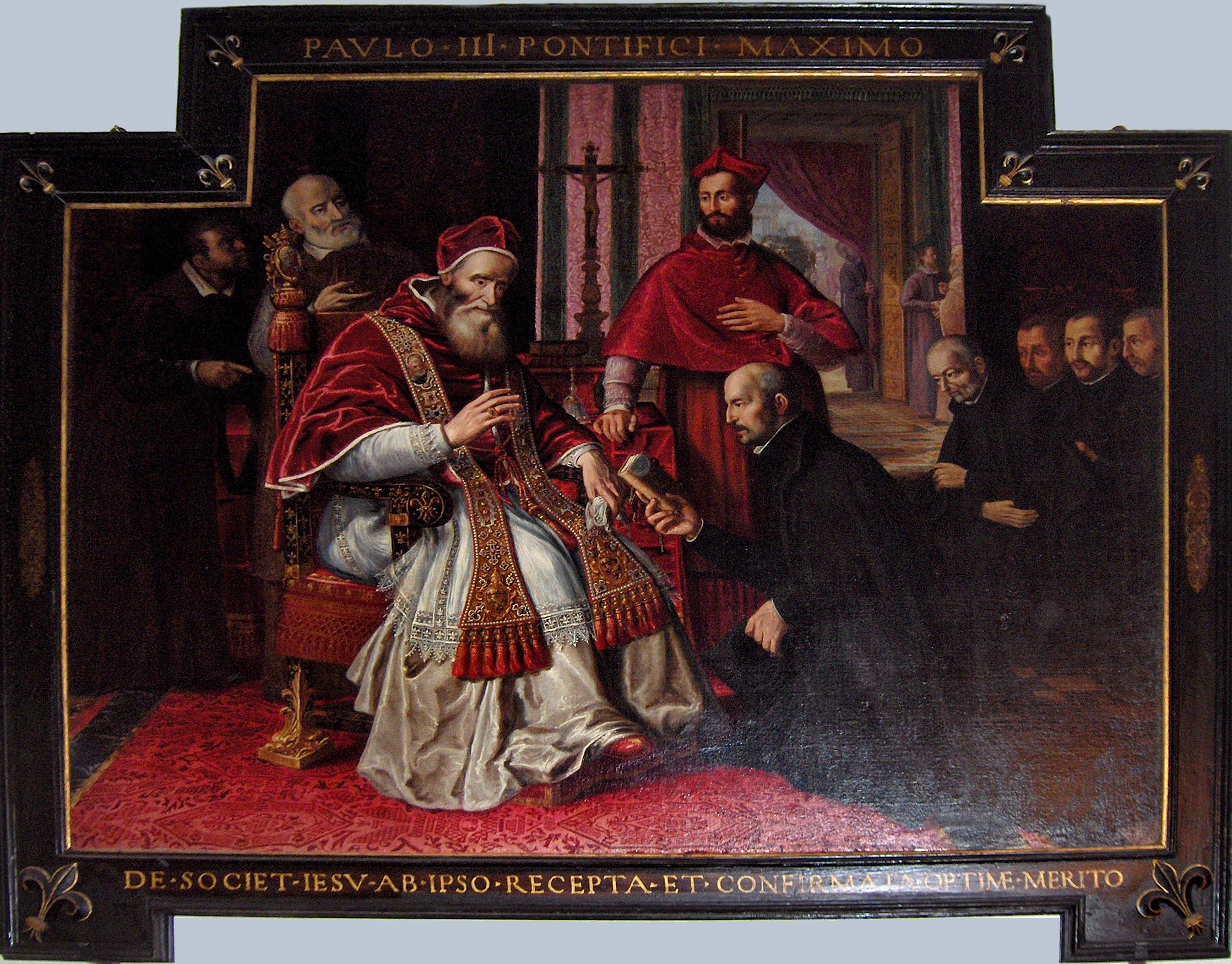 "Paul III approving the Society of Jesus", painting by an anonymous artist at the entrance of the sacristy of the church Il Gesù, Rome, Italy